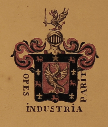 Coat of arms of the Norwegian family Aall painted about 1830 in Nicolas Bergh's Armorial of 1712